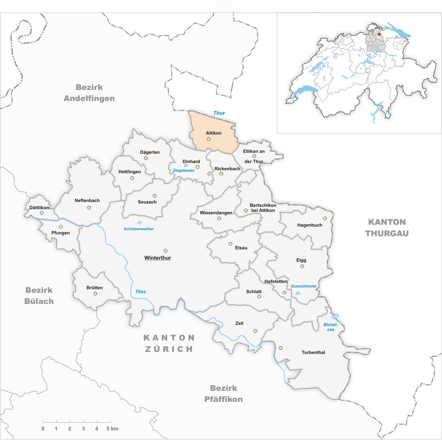 Municipality Altikon